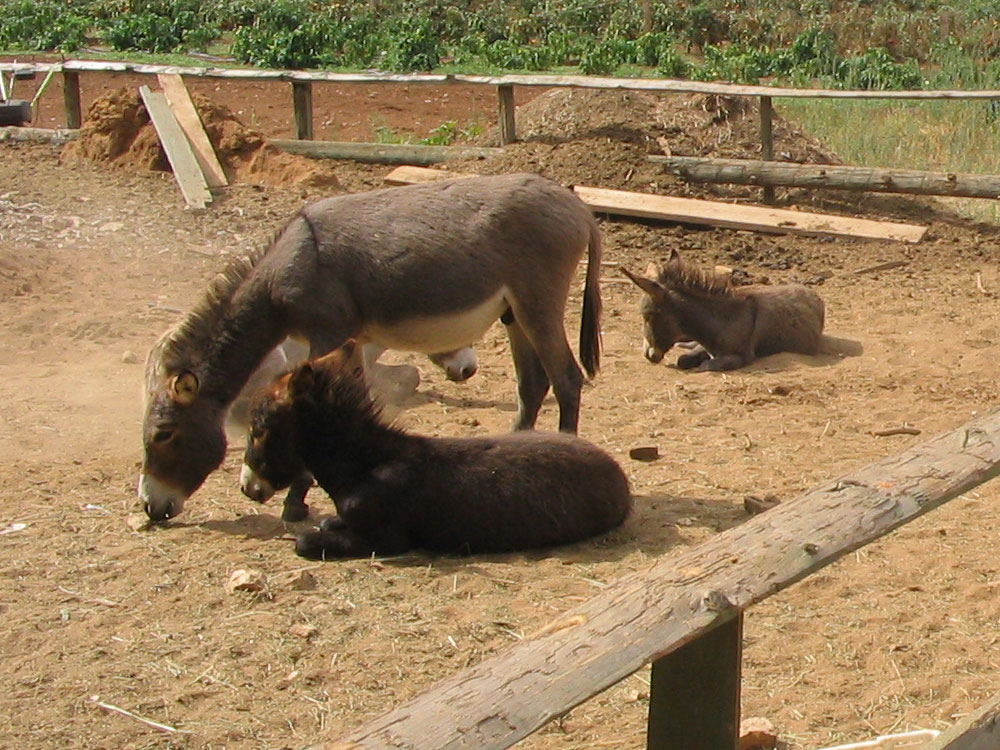 Donkeys at farm in Lovrečina bay, island of Brač, Croatia.